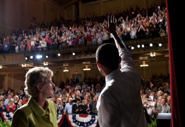 Barack Obama campaign with Robin Carnahan at the Folly Theater in Kansas City, Missouri, on July 8, 2010